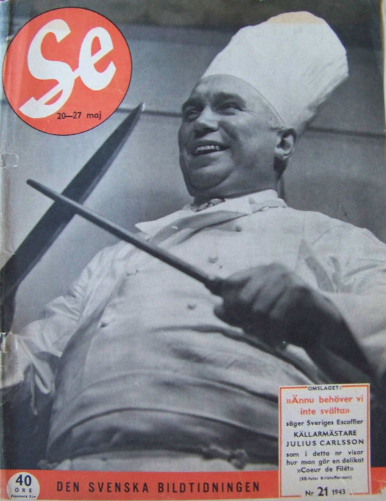 Julius Carlsson